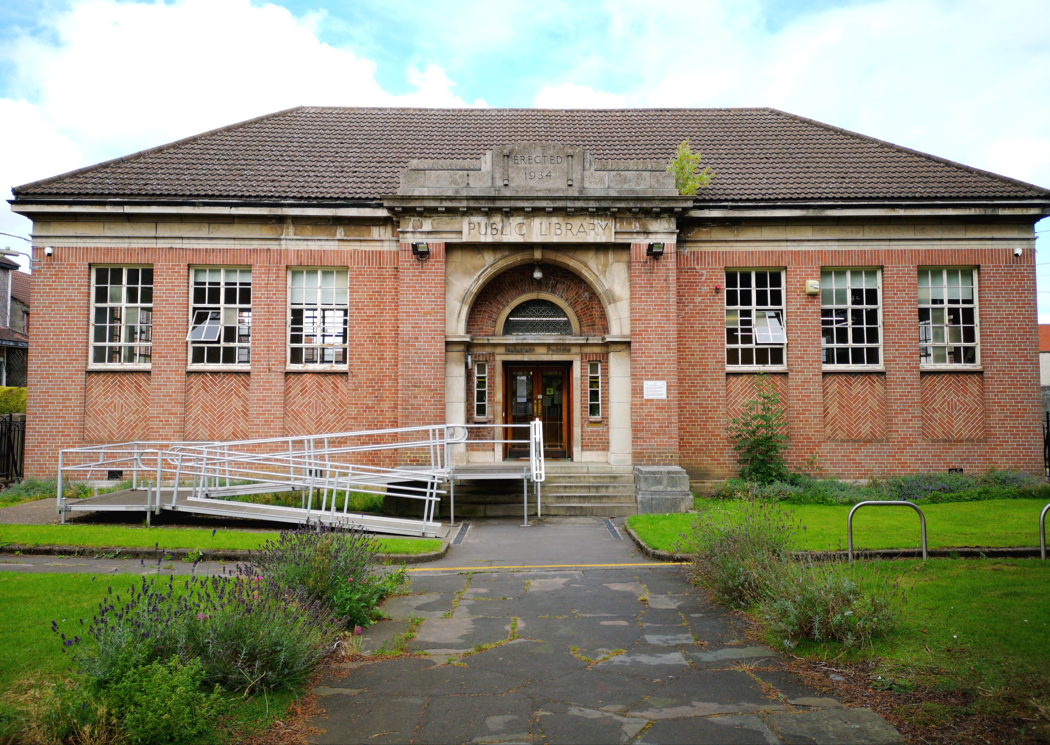 County Dublin, Phibsborough Library. Wikidata has entry Q66484148 with data related to this item.